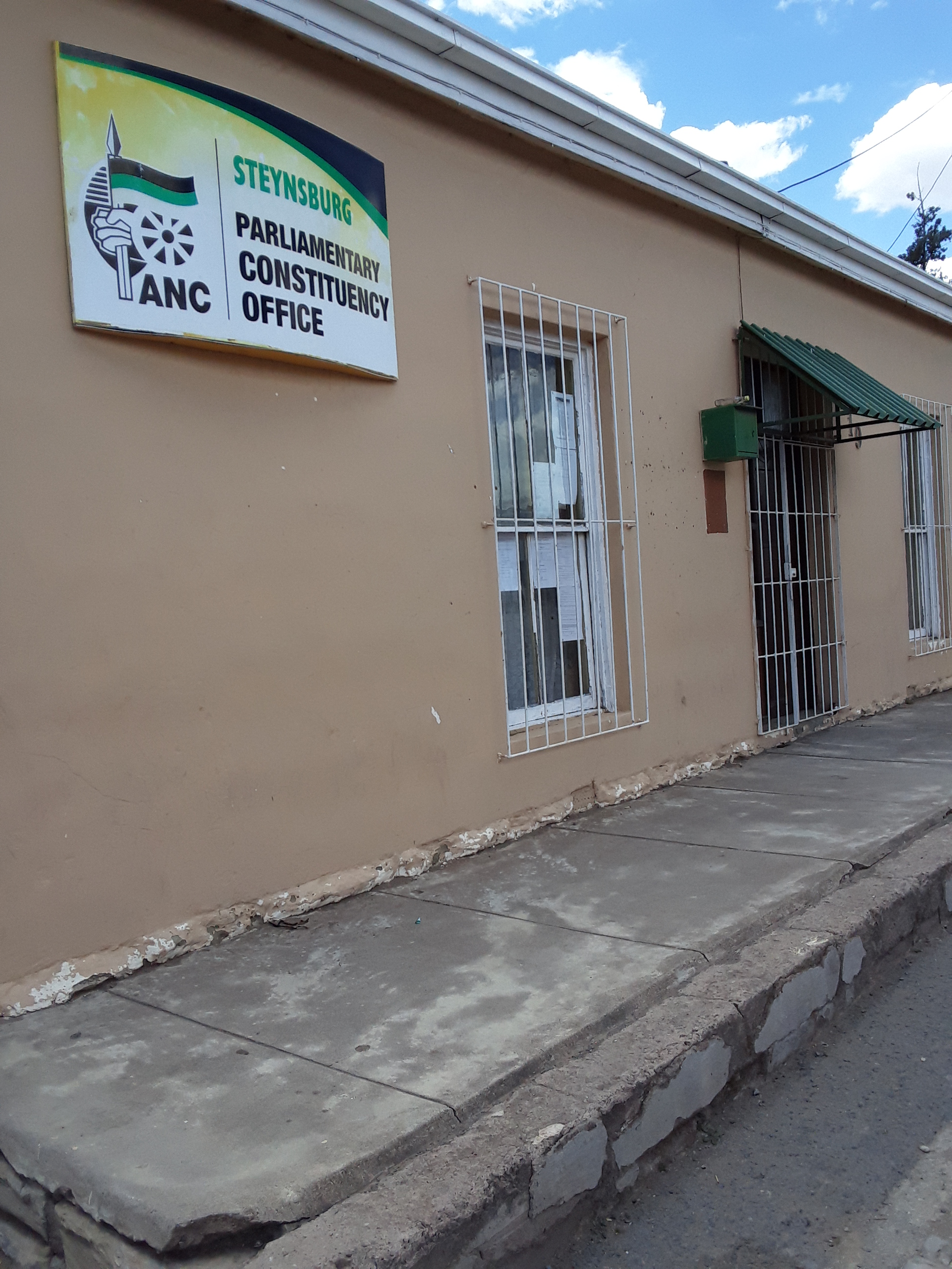 The parliamentary constituency office of the African National Congress situated in the town of Steynsburg, Eastern Cape.